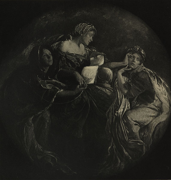 Felix Benedict Herzog: The Tale of Isolde. Photogravure, published in Camera Work October 1905